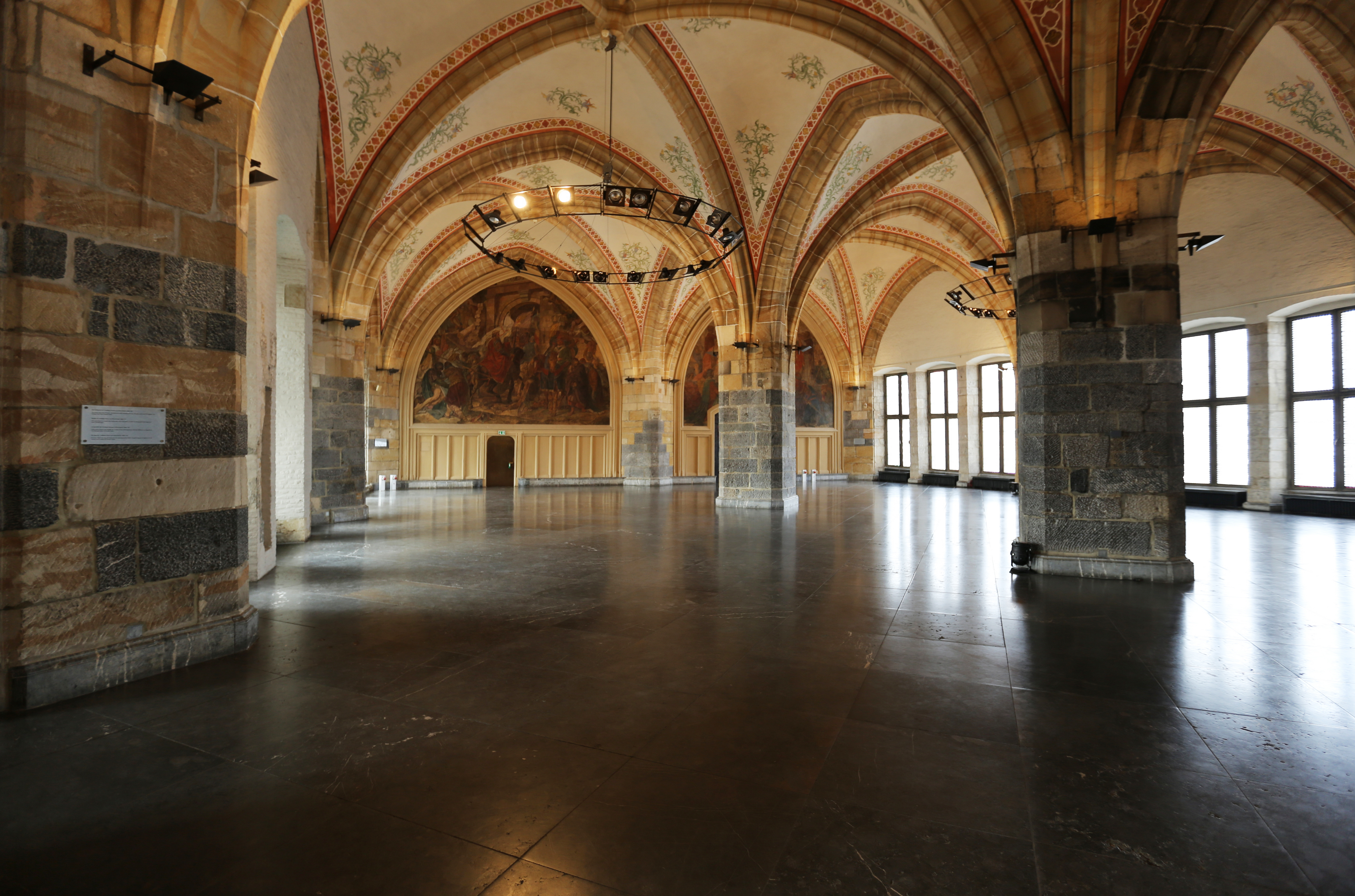 The Gothic Aachen Rathaus, Interior of Coronation Hall